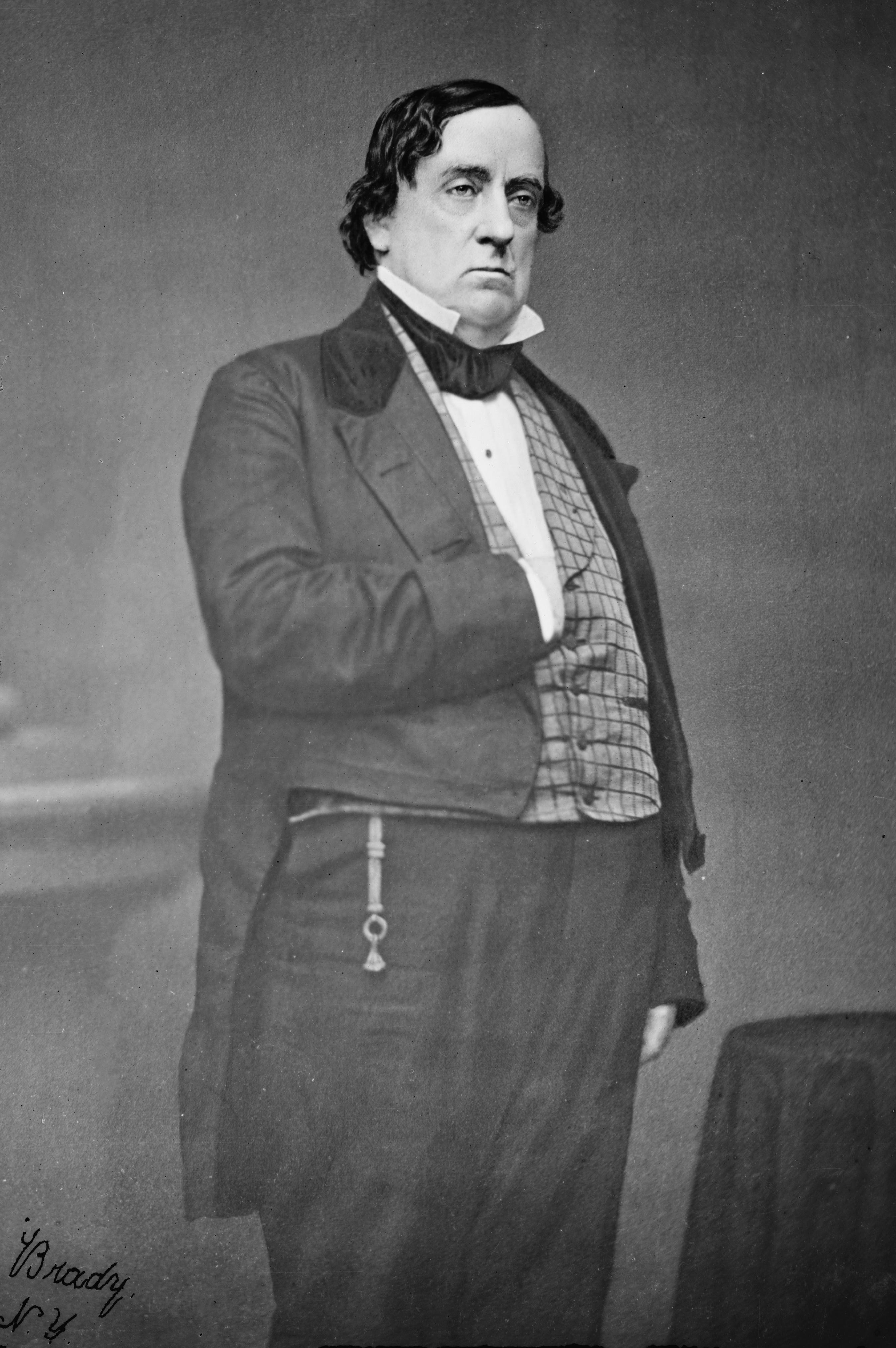 Lewis Cass ( October 9, 1782 – June 17, 1866) was an American military officer and politician. He was the nominee of the Democratic Party for President of the United States in 1848.